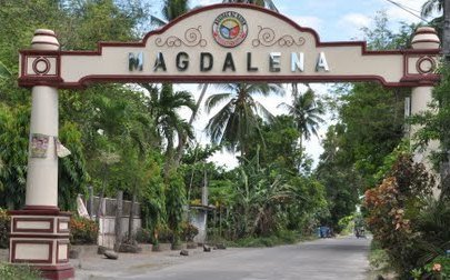 Magdalena-Pagsanjan Marker